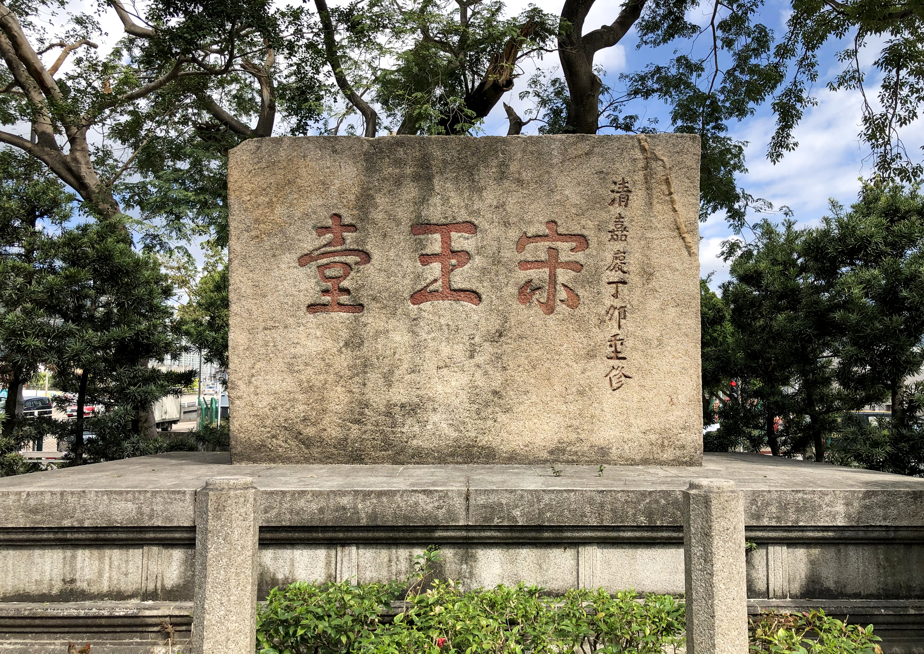 To be served by MTR next year if there were no problems north of Ho Man Tin.